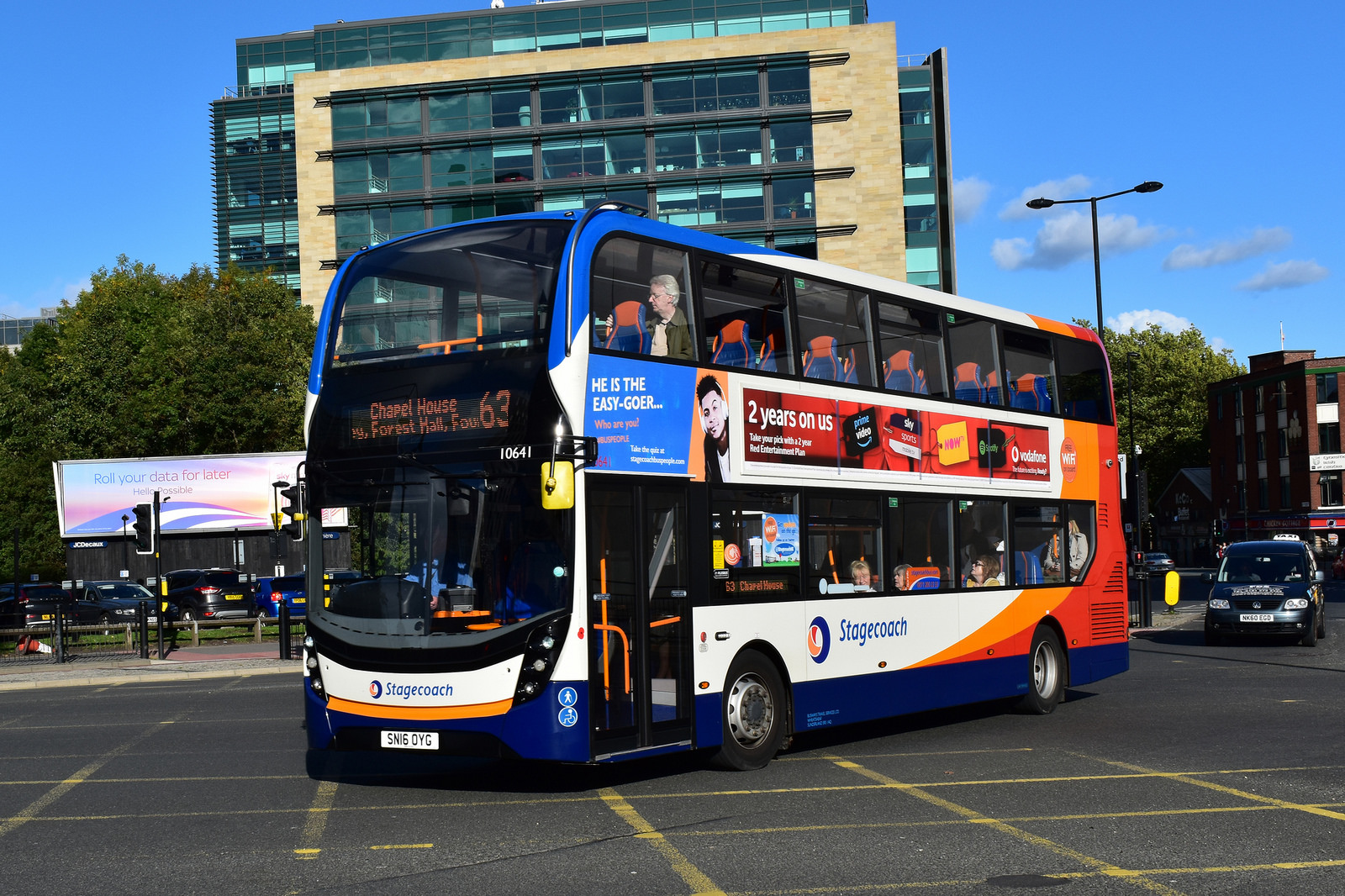 Stagecoach North East ADL Dennis Enviro 400 MMC 10641 SN16OYG is pictured here on Gallowgate in Newcastle while operating service 63.